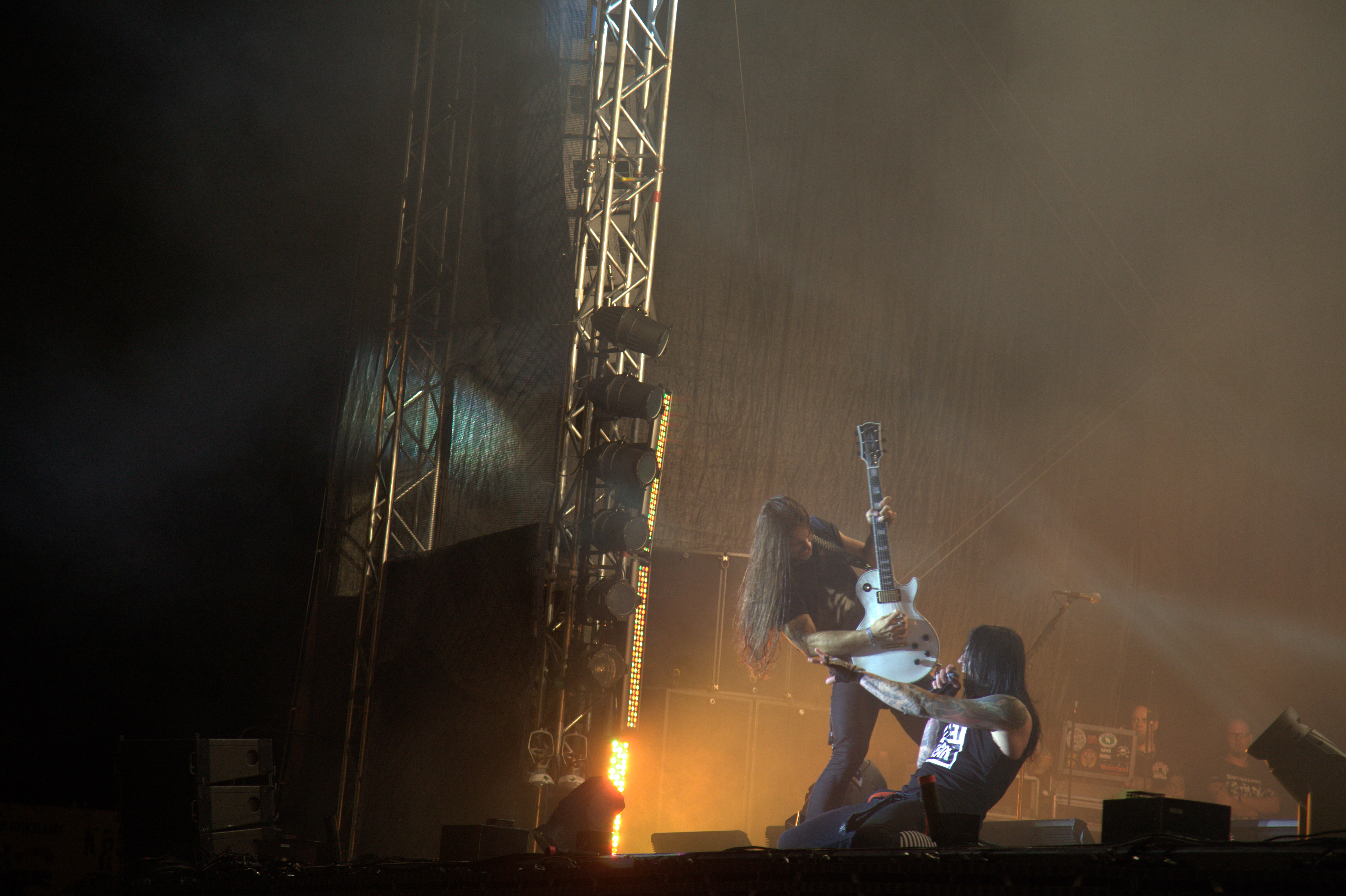 Hardcore superstar - Göteborg - 2010-08-11